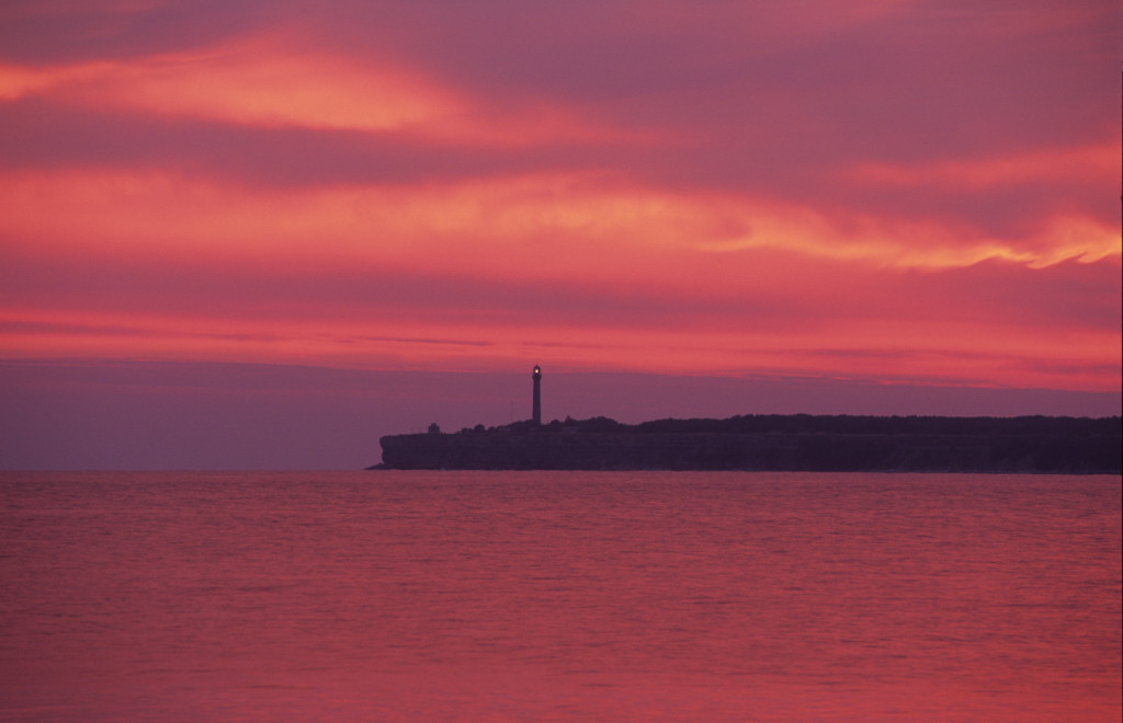 The tip of the Pakri Peninsula